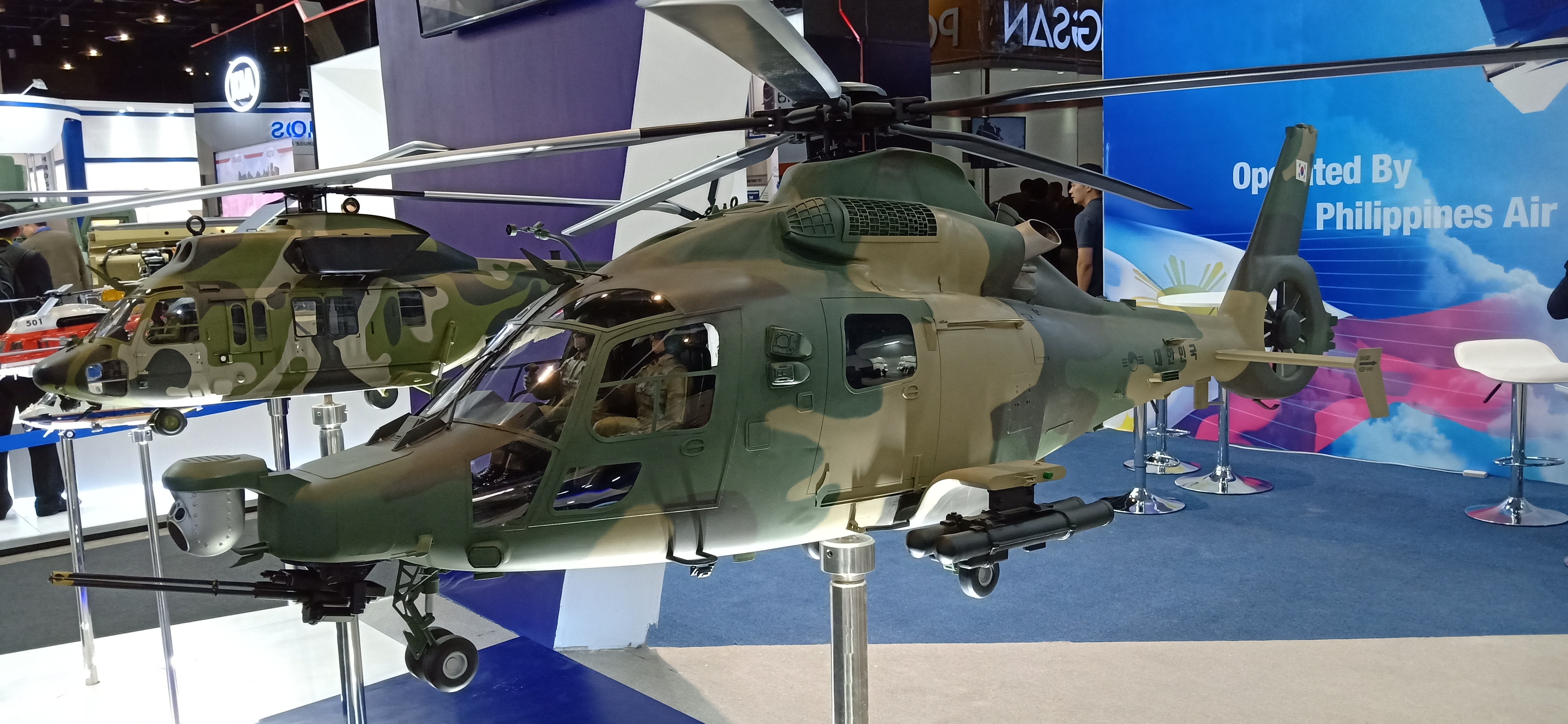 A scale model of the Light Armed Helicopter (LAH) made by the South Korean company Korea Aerosace Industries (KAI). Photo taken during the 2018 Asian Defence and Security (ADAS) Trade Show at the World Trade Center in Pasay, Metro Manila.